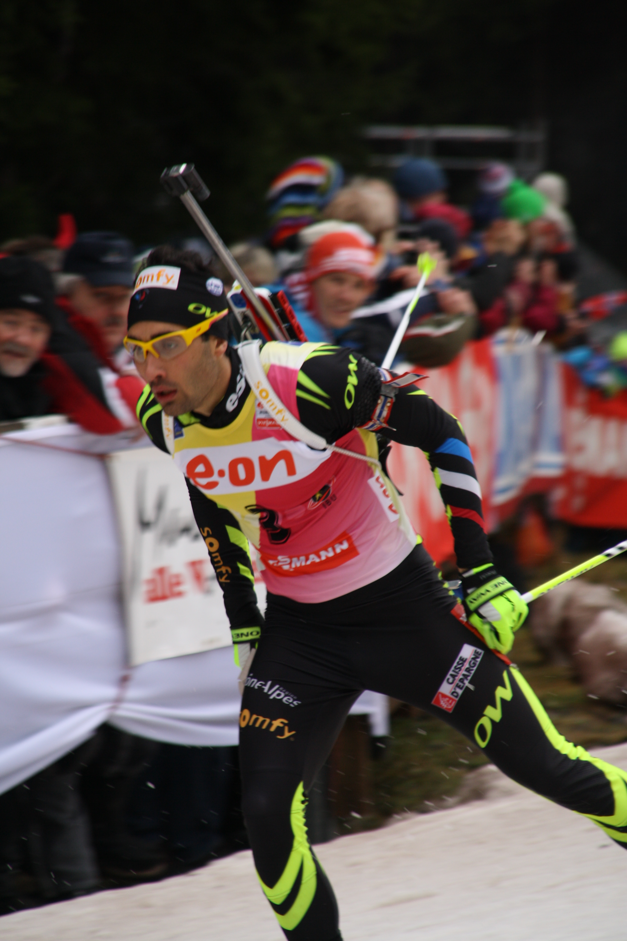 Biathlon World Cup Oberhof 2014 - Mens Pursuit